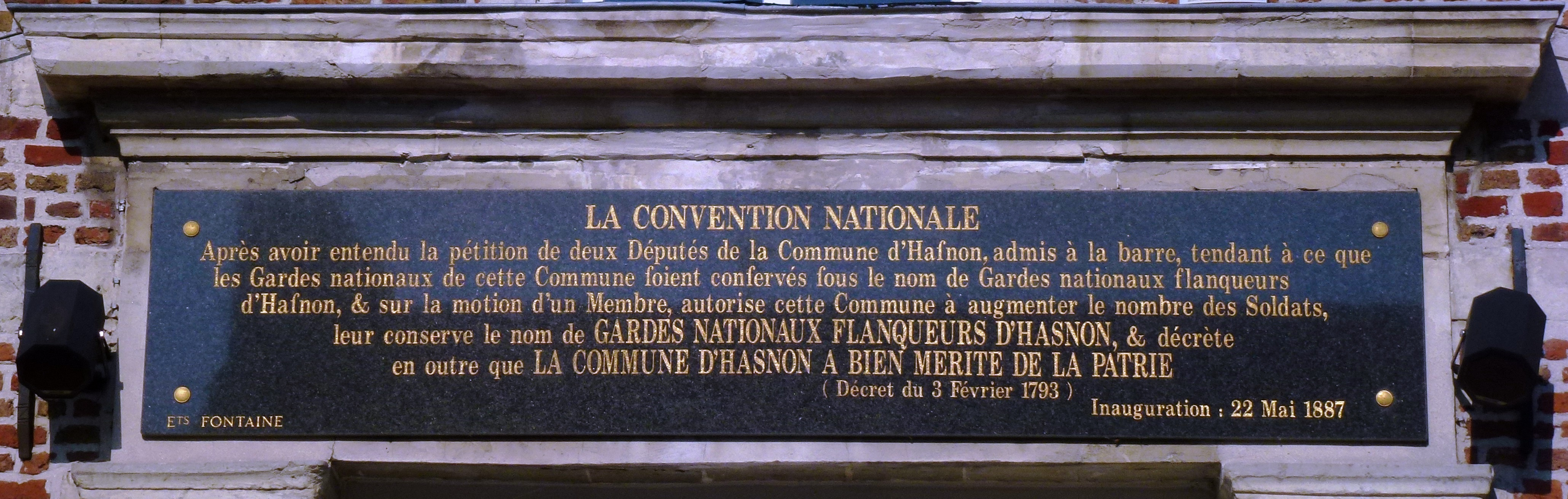 Hasnon (Nord, Fr) texte commémoratif sur la mairie